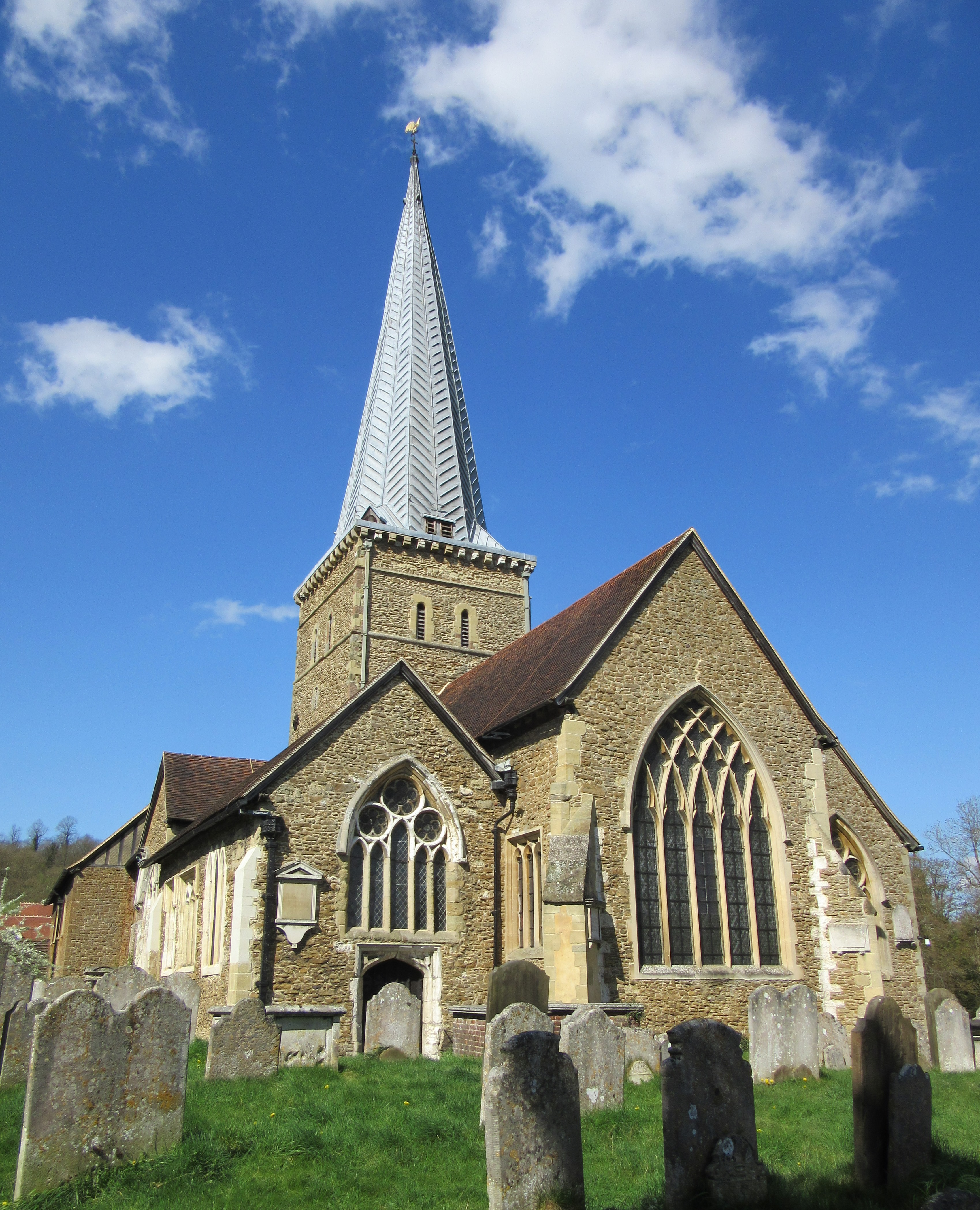 St Peter and St Paul's Church, Church Street, Godalming, Borough of Waverley, Surrey, England.